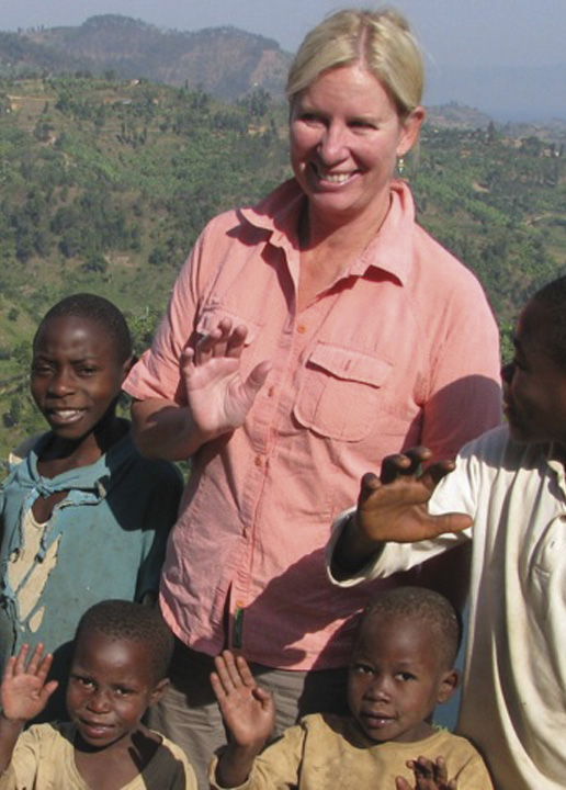 Photo of Kristine Kershul in Rwanda (year 2011)